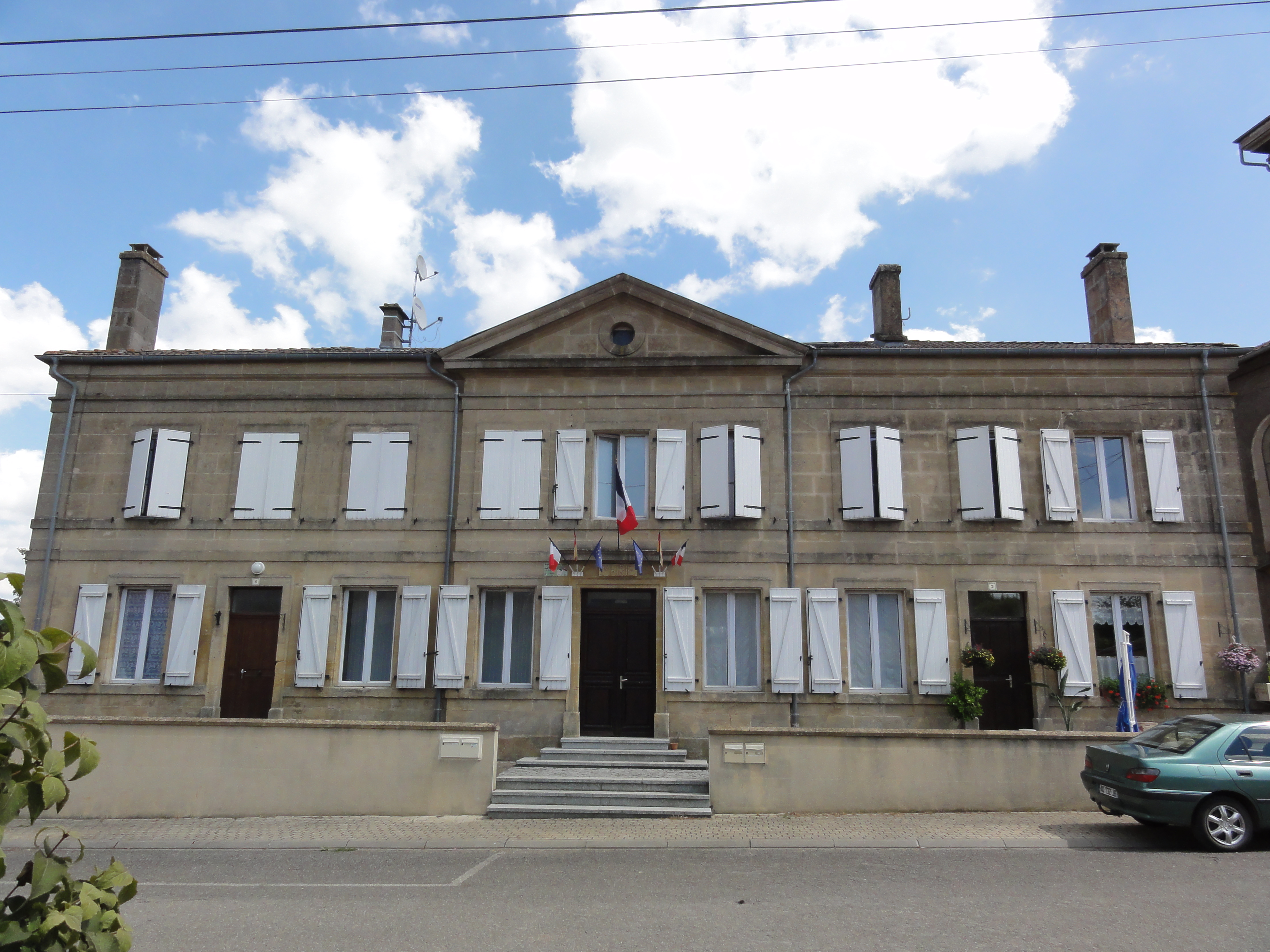 Merles-sur-Loison (Meuse) mairie